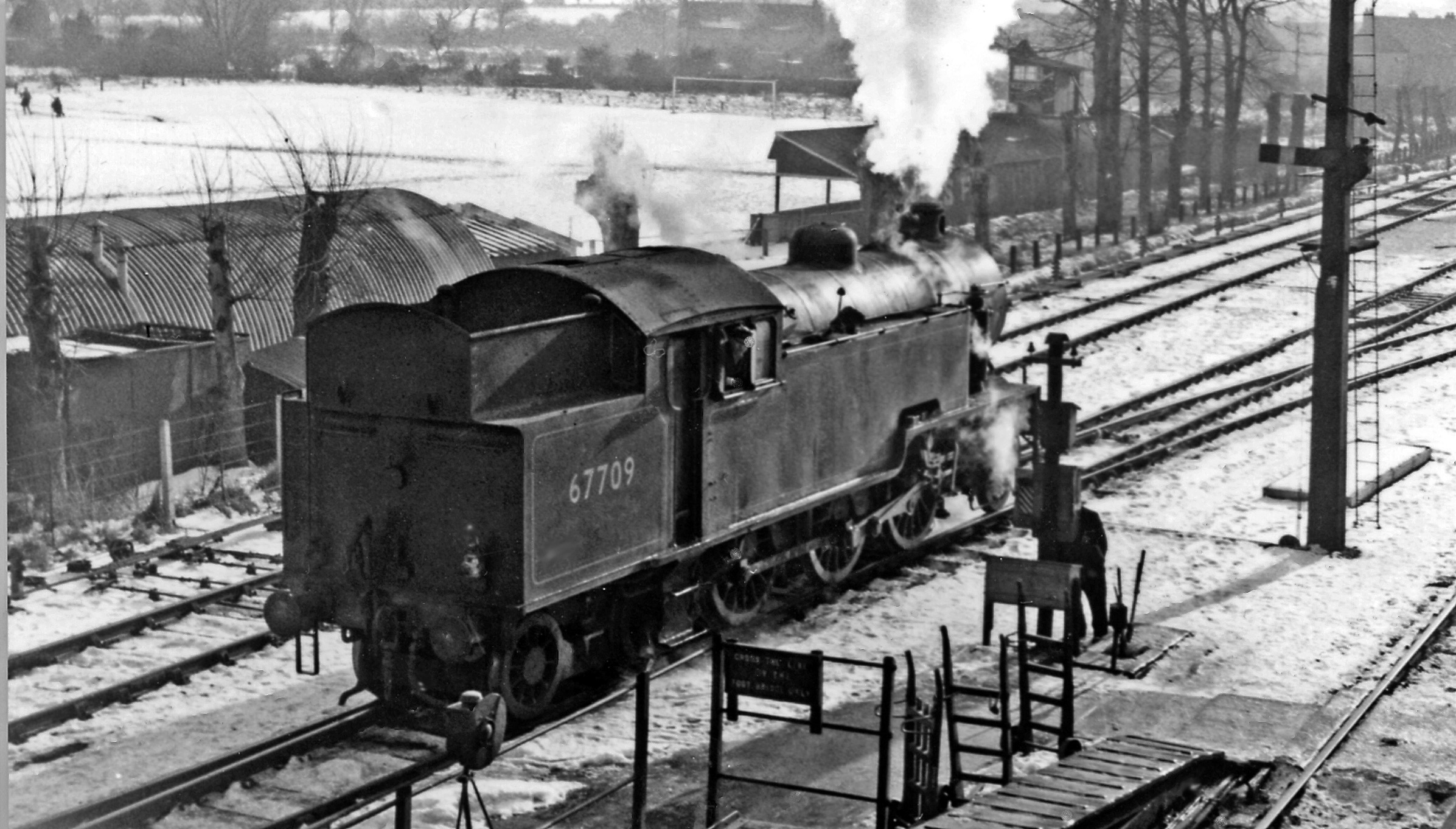 An L1 2-6-4T in a wintry scene at Beccles Station. View southward, towards Ipswich; ex-Great Eastern Ipswich - Lowestoft/Yarmouth line. Thompson L1 No. 67709 will be about to work the Lowestoft portion of an express from London Liverpool Street.